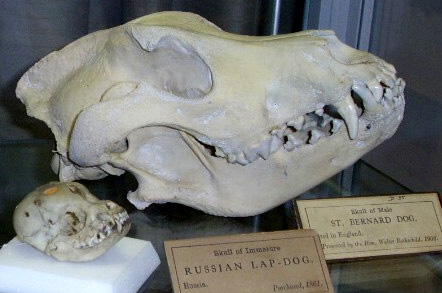 Author: Sarah Hartwell (Messybeast). Own work. Comparison of skull sizes - Russian Lapdog and St Bernard Dog. Rothschild Zoological Museum, Tring, England.